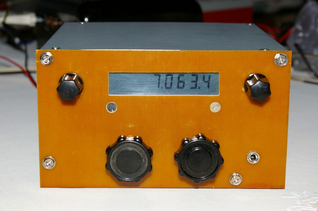 Homebrewed direct conversion HF receiver